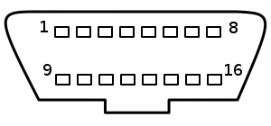 Diagram of pins on female On-Board_Diagnostics (OBD) connector